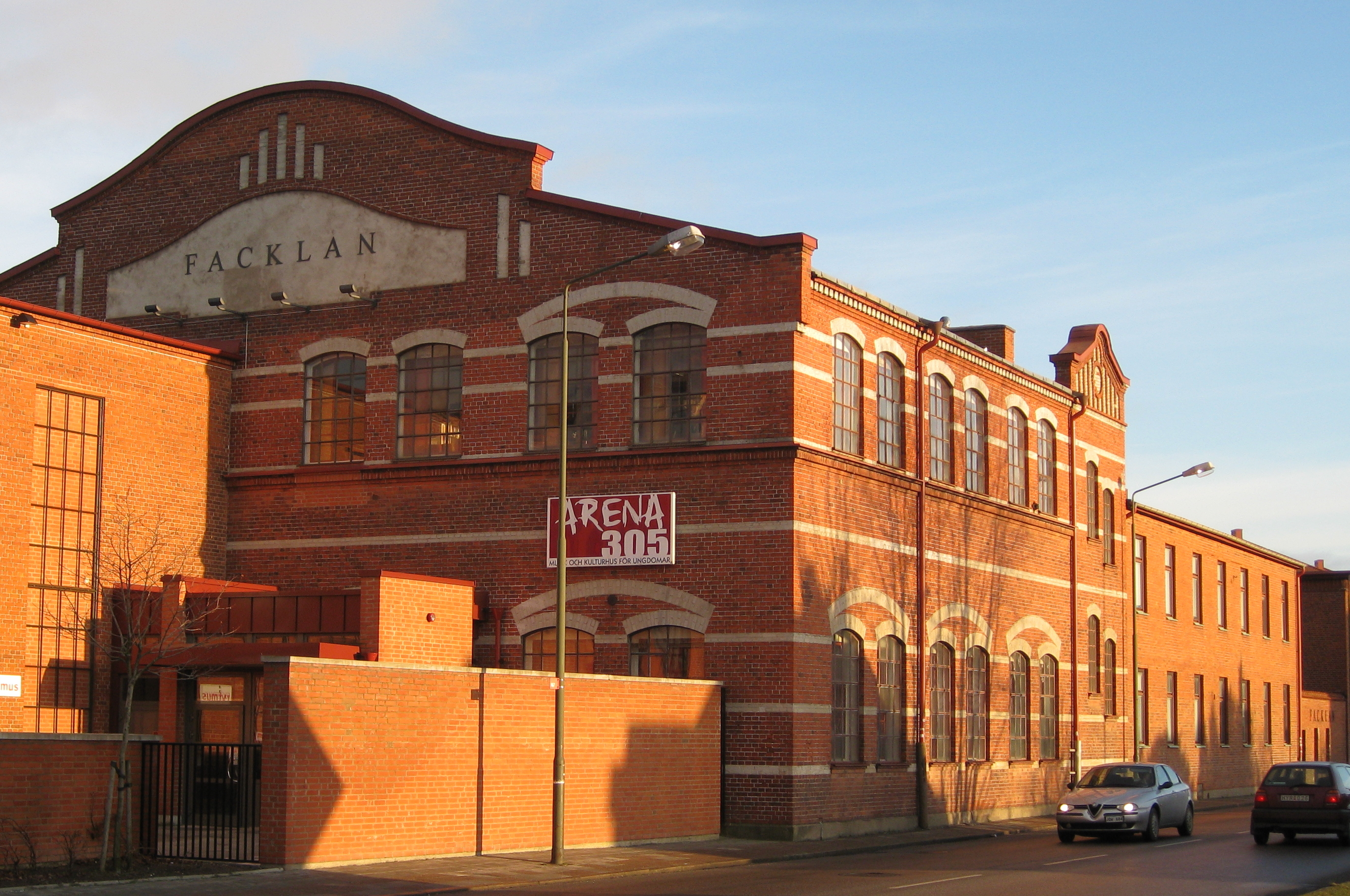 The Arena 305 building in Sofielund, Malmö, Sweden